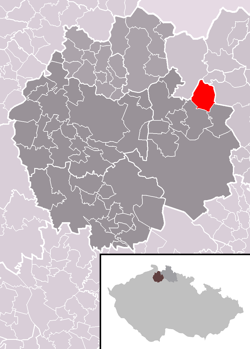 Location of Dubnice municipality within Česká Lípa District and administrative area of Česká Lípa as a Municipality with Extended Competence.